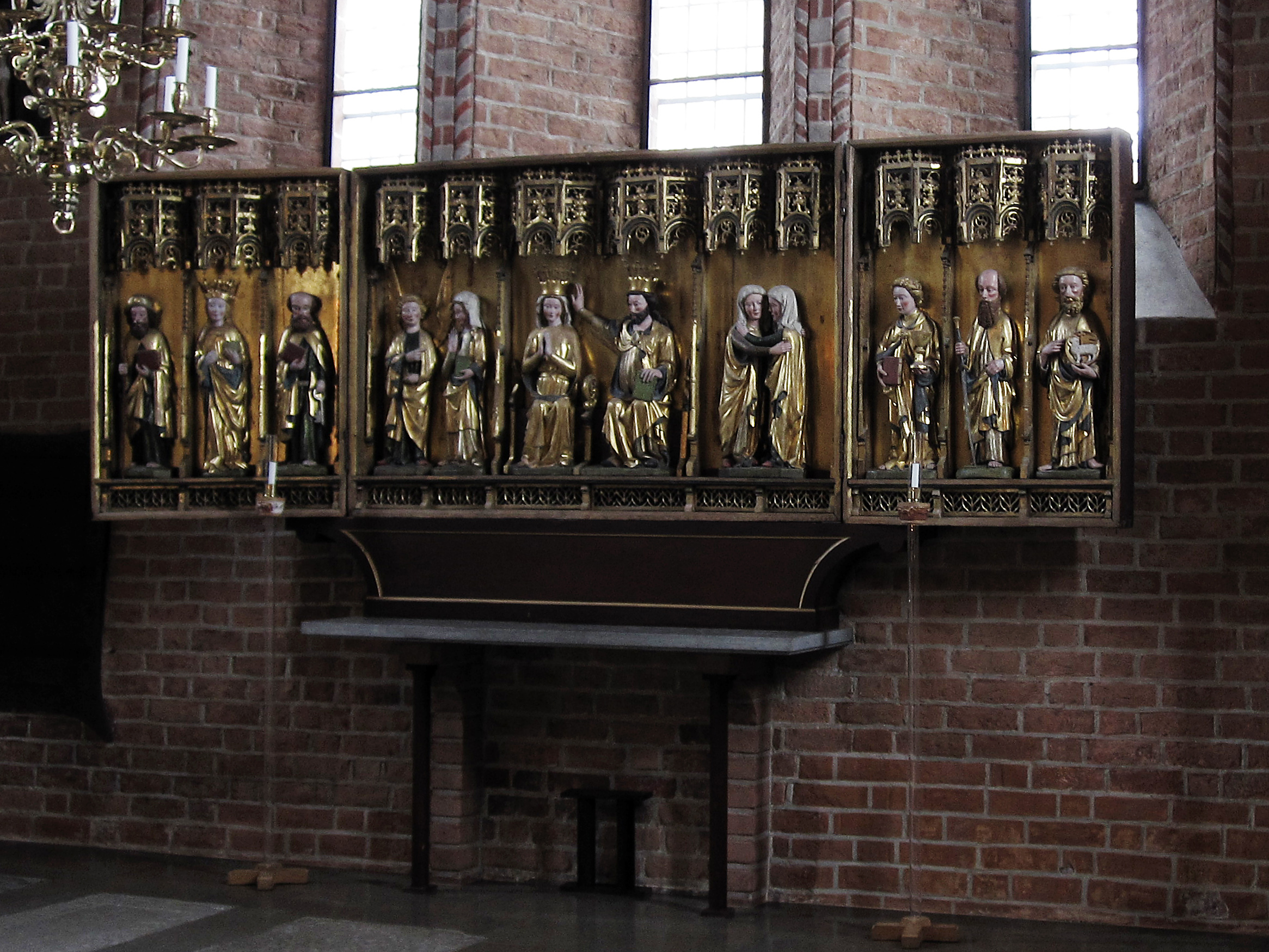 Church of Saint Mary, Sigtuna, Sweden. Altar. Triptych.